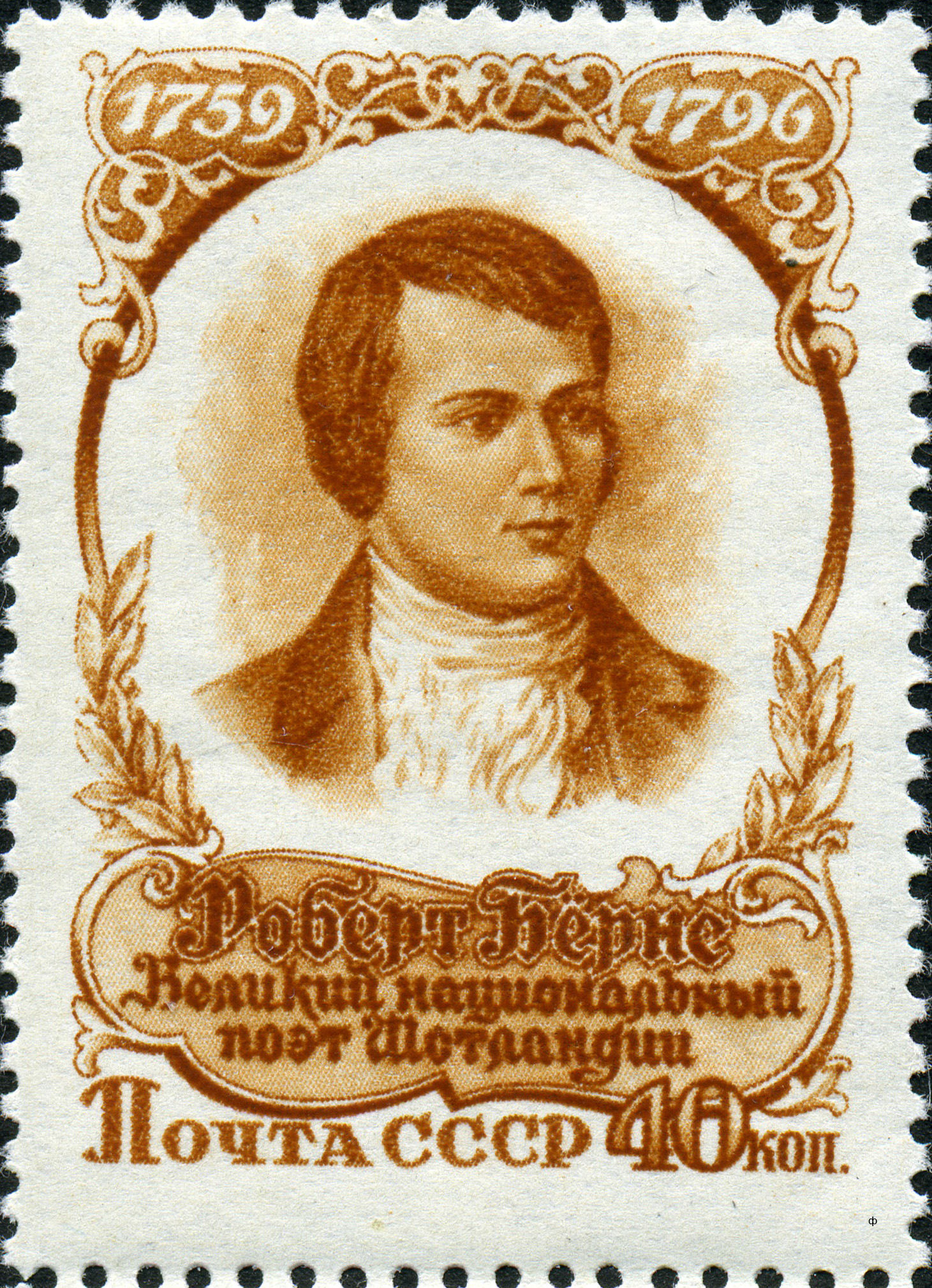 Postage stamp of the Soviet Union, Robert Burns, scottish poet, 1956, 40 kopecks